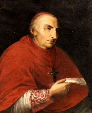 Diego Gregorio Cadello, archbishop of Cagliari